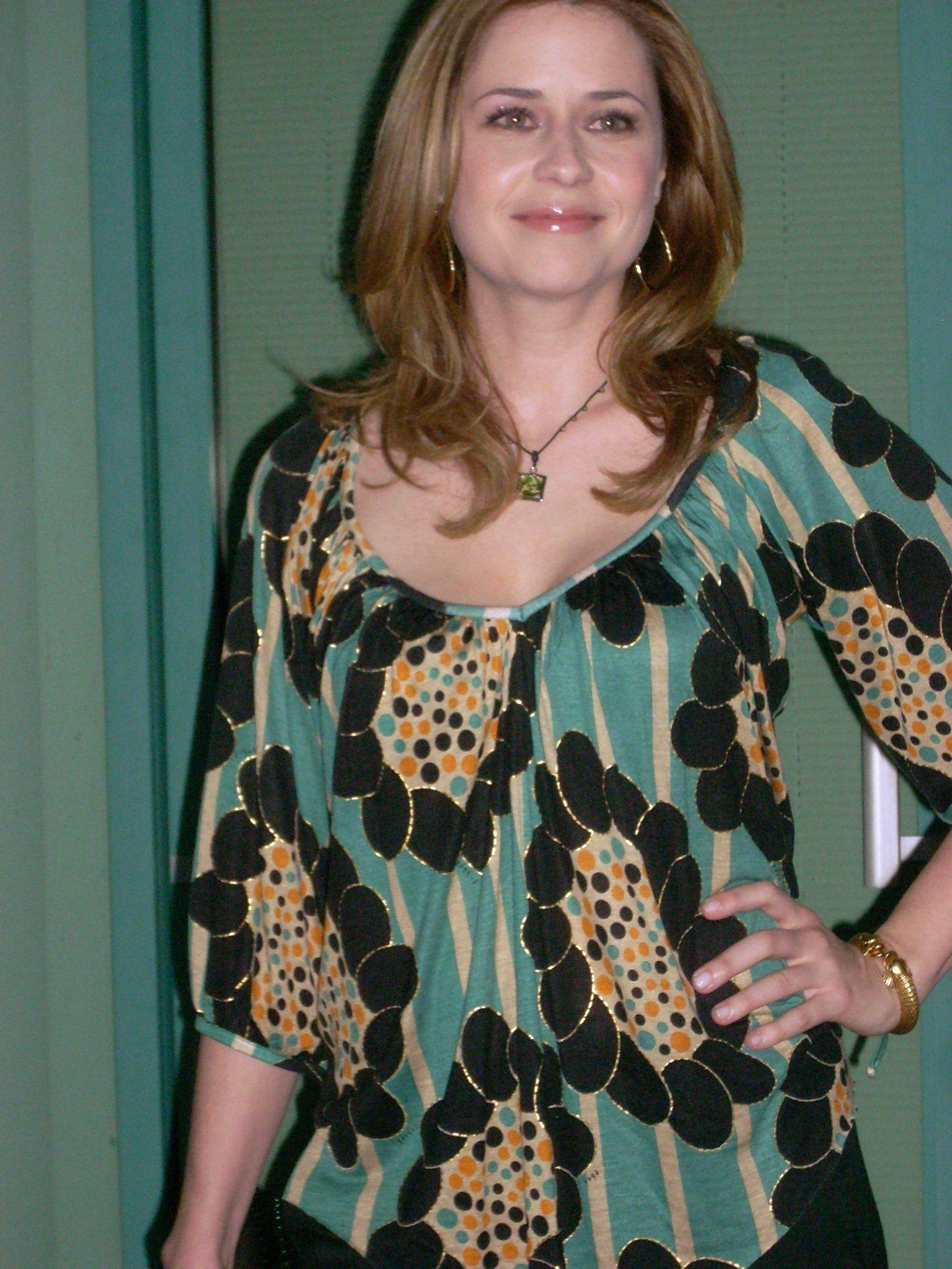 Jenna Fischer - Inside "The Office" at the Academy of Television Arts & Sciences, North Hollywood, California.